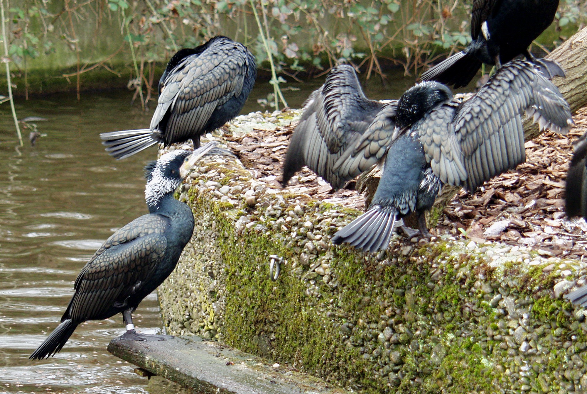 Great Cormorant (Phalacrocorax carbo) in Zoo Duisburg